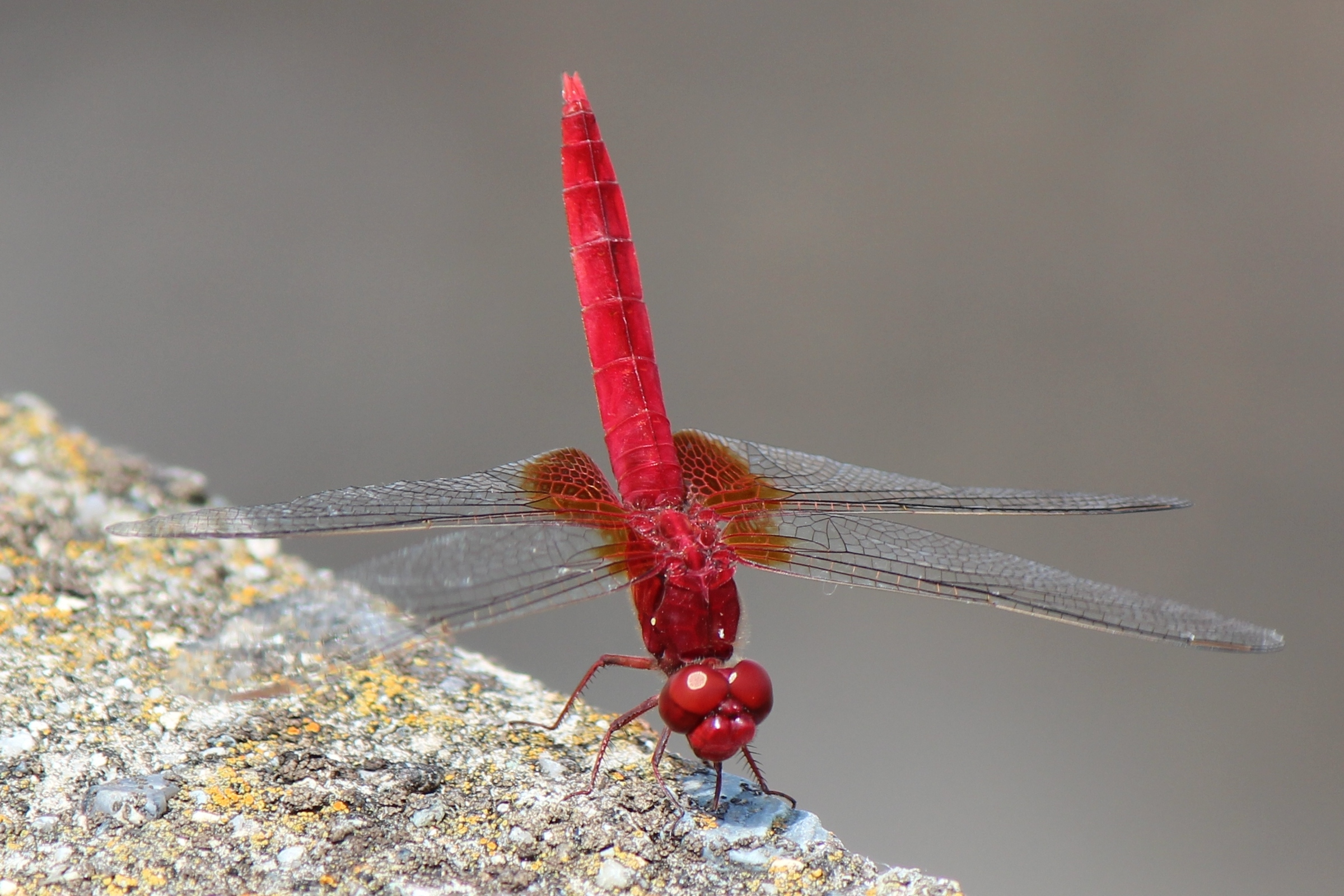 Crocothemis servilia mariannae (Scarlet Skimmer) in Japan.